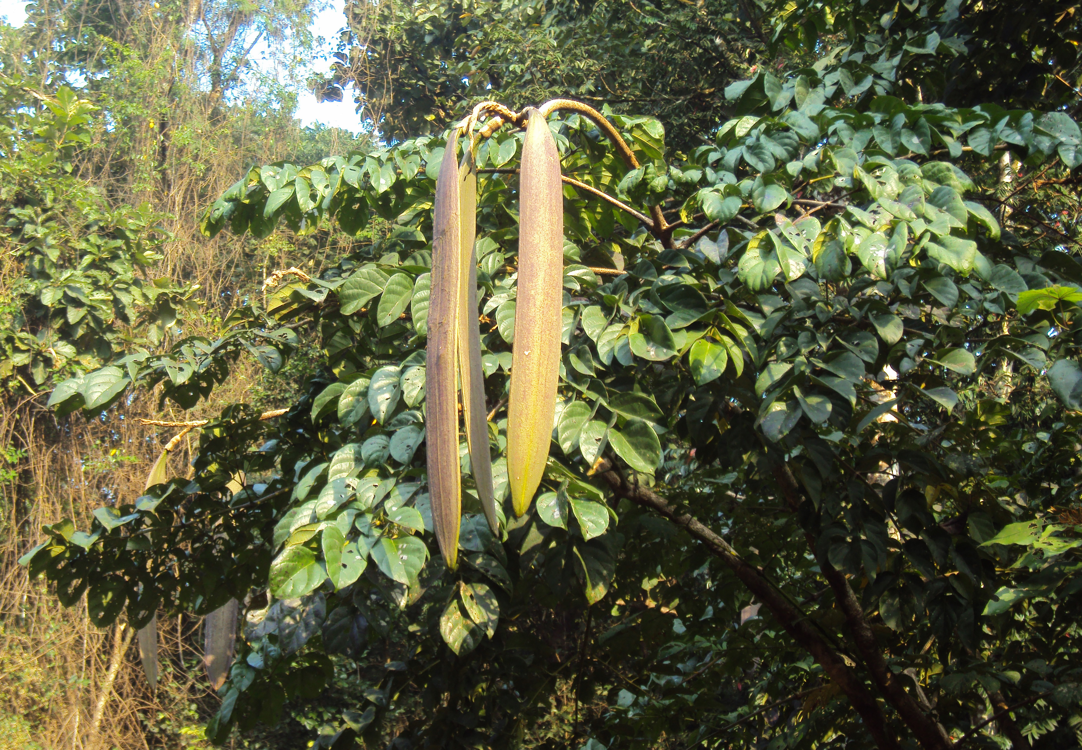 Oroxylum indicum